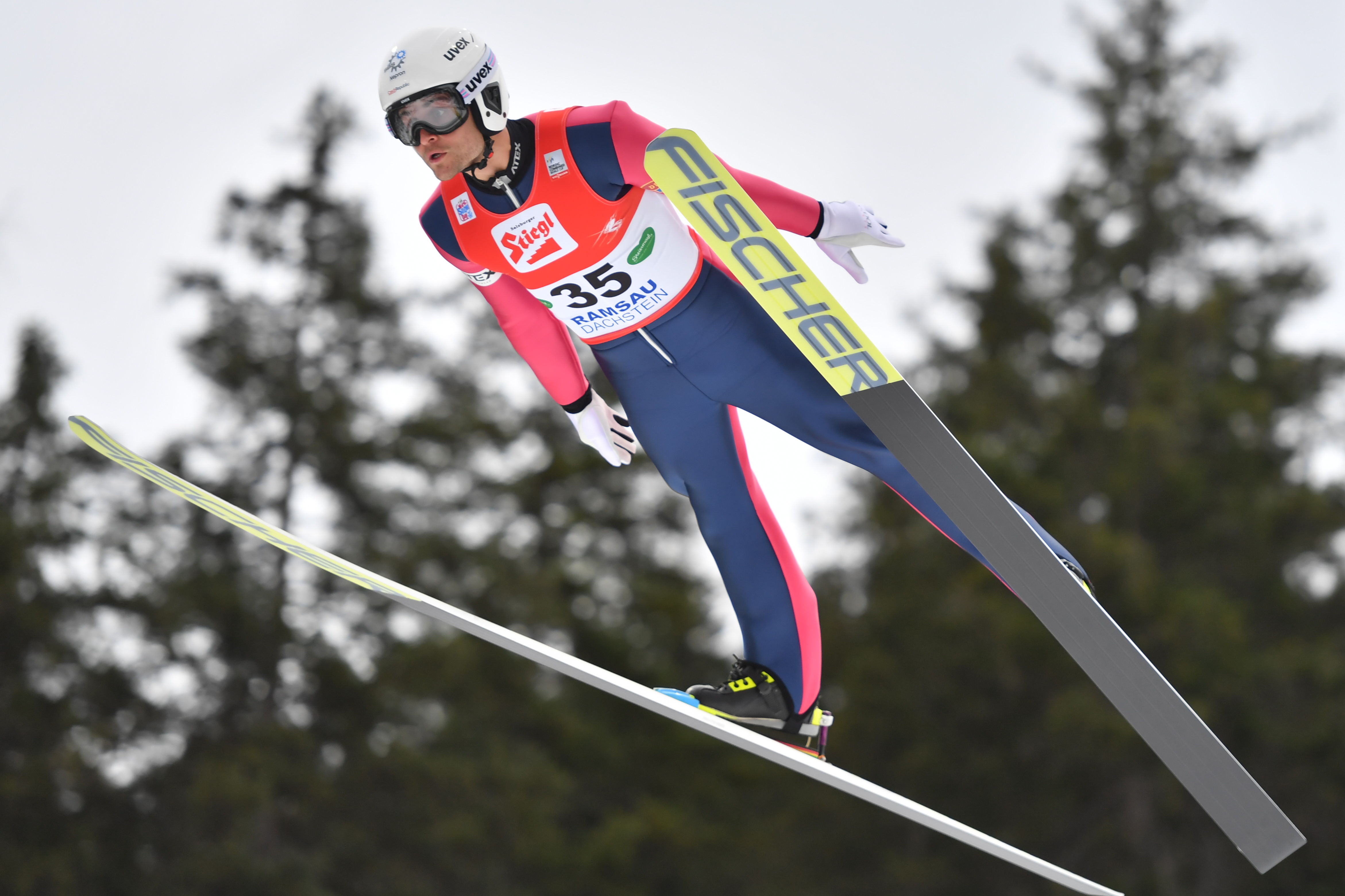 FIS World Cup Nordic Combined, Ramsau/Austria, 2016-12-16 to 2016-12-18.